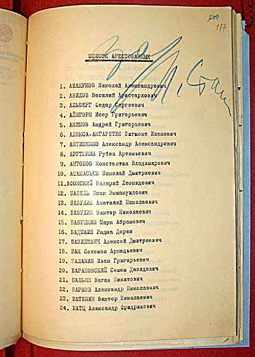 The first page of the list of 346 persons to be executed. Number 12 is Isaak Babel. Stalin's resolution: "за" ("za"